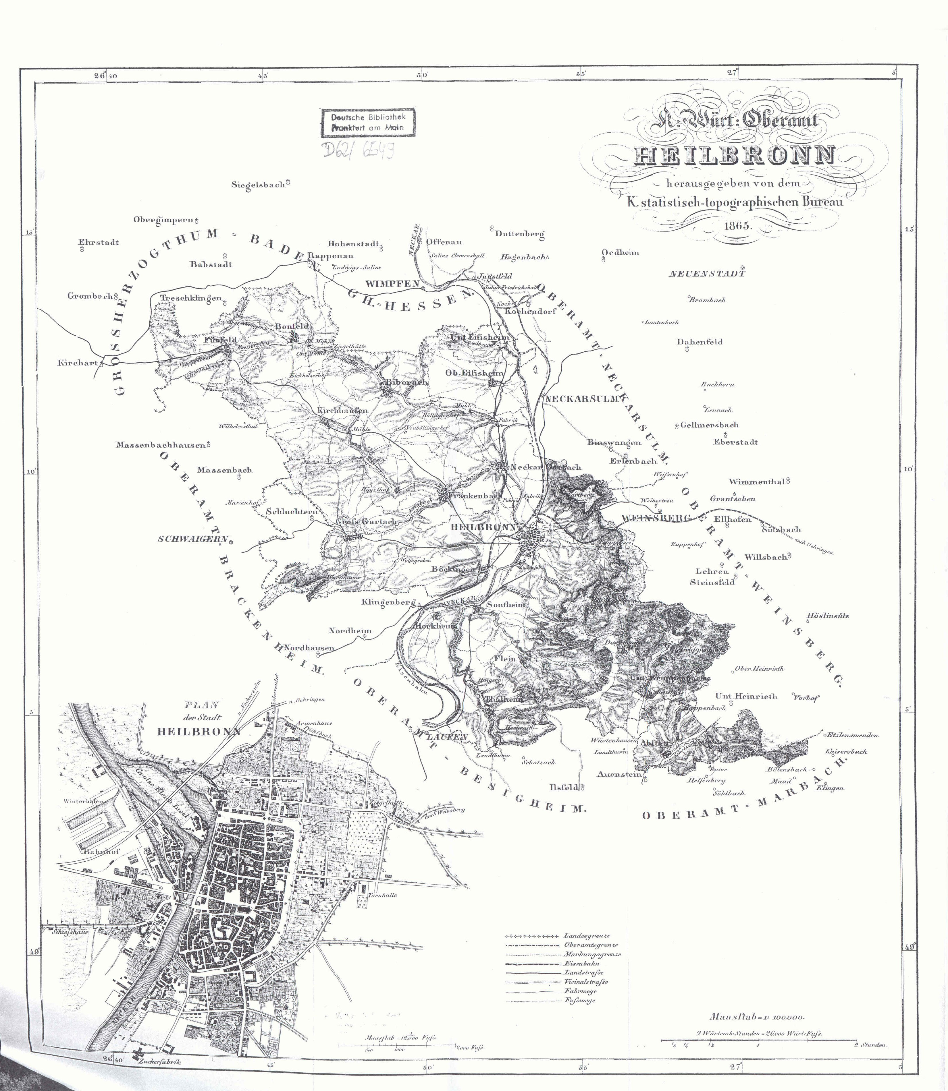 Scan from a reprint